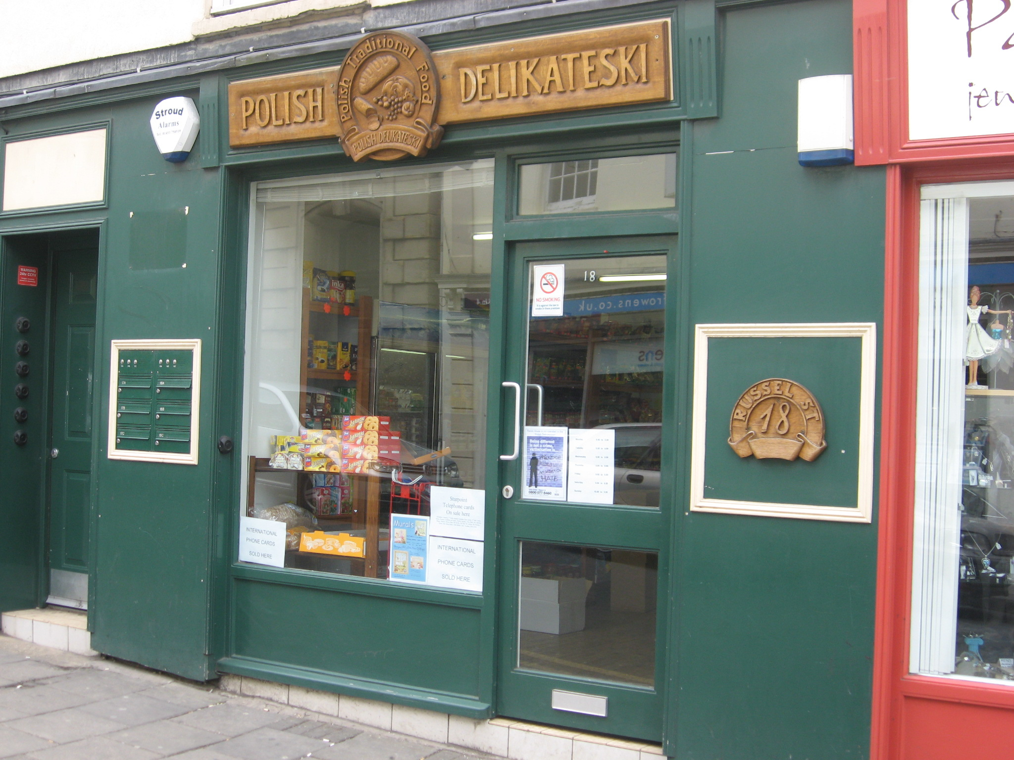 A Polish delicatessen in Stroud, England